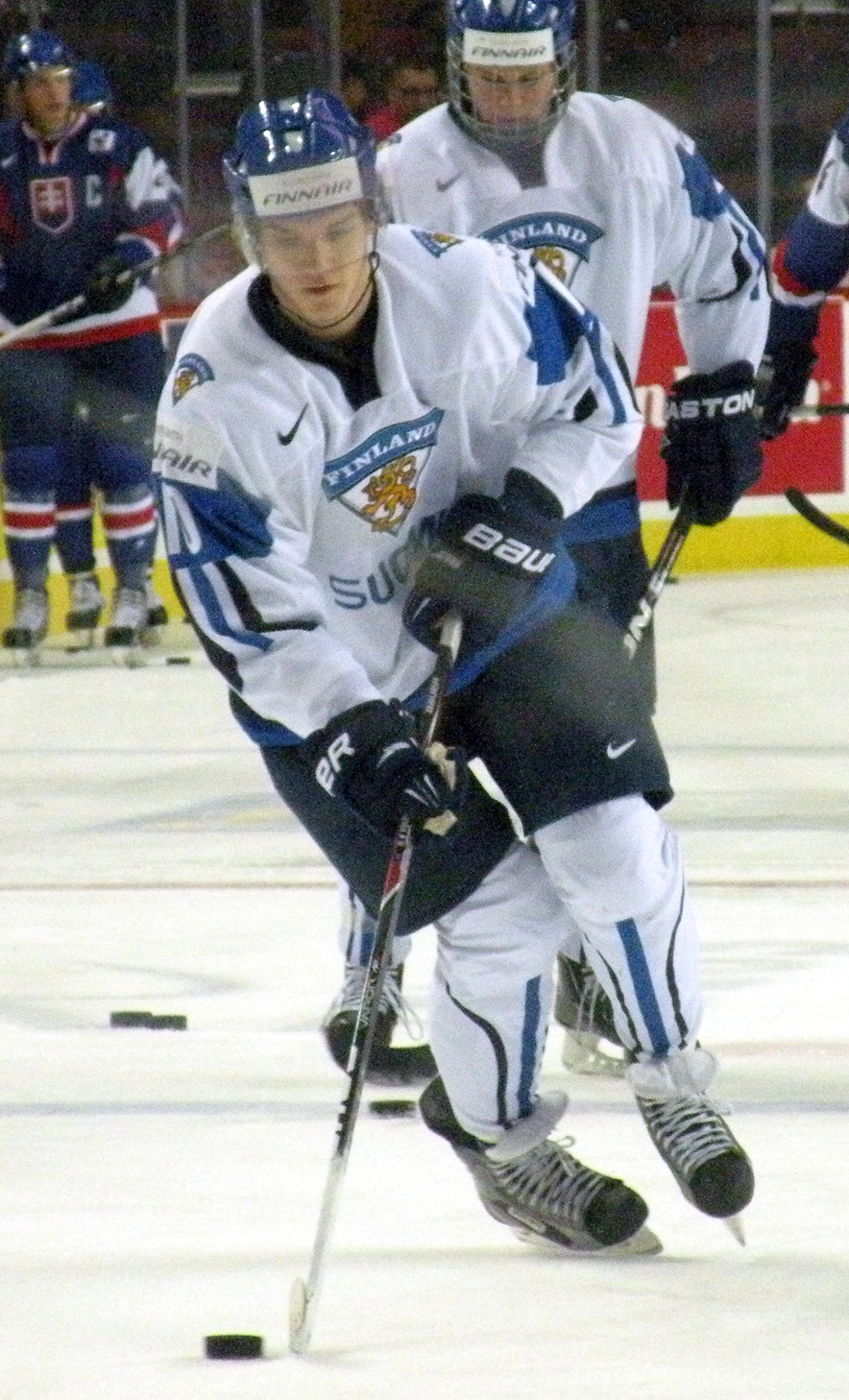 Finnish forward Joel Armia prior to a game against Team Slovakia at the 2012 World Junior Hockey Championships at Calgary, Alberta, Canada.